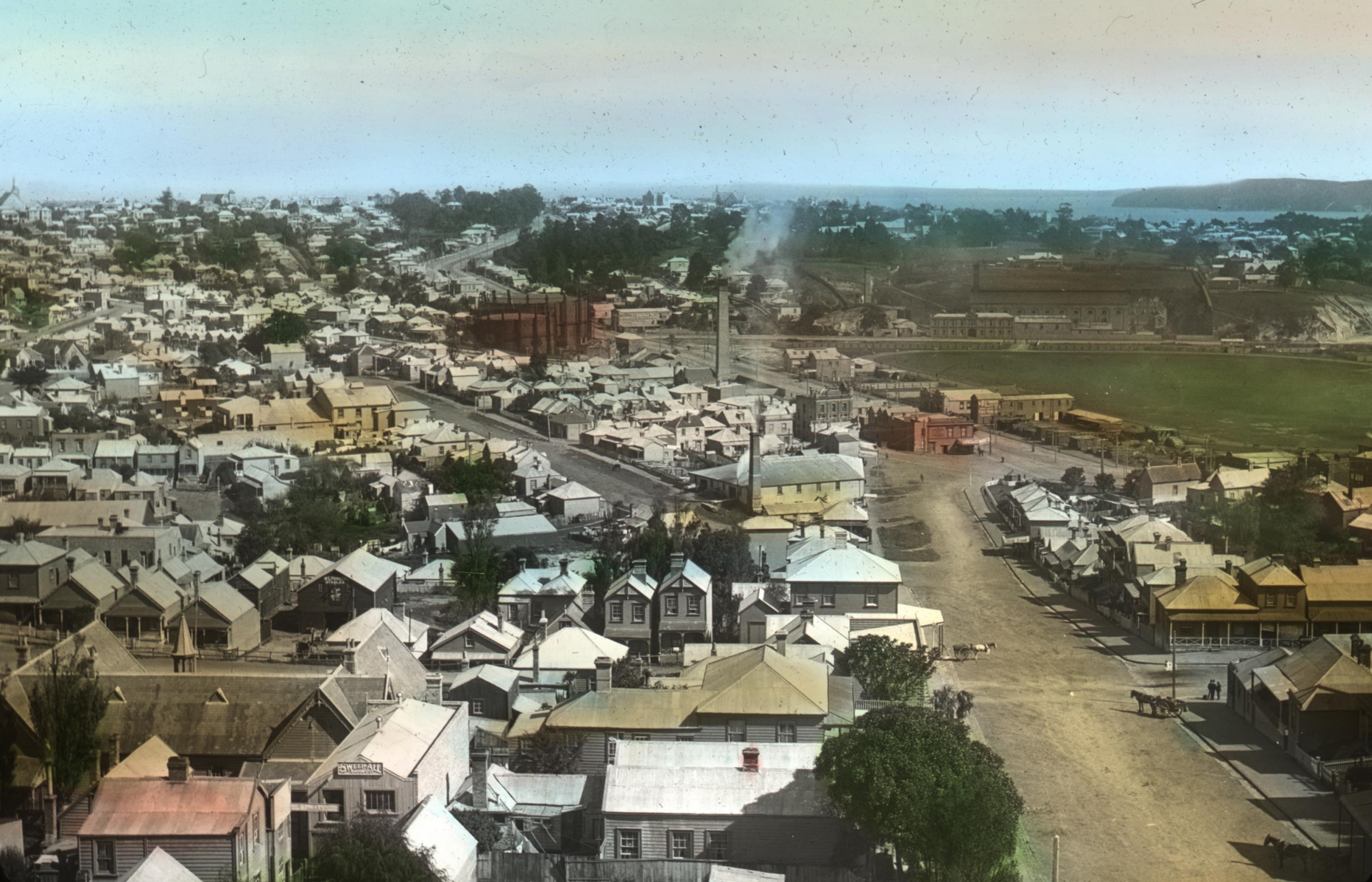 Image Description from historic lecture booklet: "Auckland is the largest city of New Zealand. It lies on an isthmus at the foot of Mount Eden, which is six hundred feet high; it is not far from the mouth of the Waikato River, the chief stream of the archipelago. It is a great business city and port of call. It is the seat of the University, and has a fine museum, rich in Maori remains. The Public Library includes the valuable library of Sir George Grey. The surround bills are old volcanoes with fine craters, such as Mount Eden; the most recent in eruption was probably Rangitoto on an island in the gulf." Original Collection: Visual Instruction Department Lantern Slides Item Number: P217:set 039 040 You can find this image by searching for the item number by clicking here. Want more? You can find more digital resources online. We're happy for you to share this digital image within the spirit of The Commons; however, certain restrictions on high quality reproductions of the original physical version may apply. To read more about what “no known restrictions” means, please visit the Special Collections & Archives website, or contact staff at the OSU Special Collections & Archives Research Center for details.